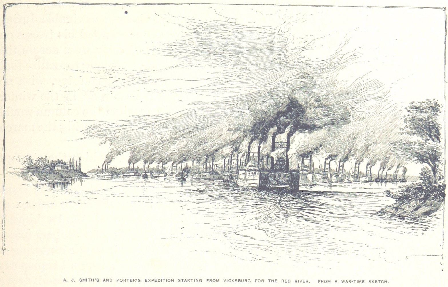 At the start of the Red River Campaign, the gunboats of Admiral Porter and the troops of General A. J. Smith depart Vicksburg.